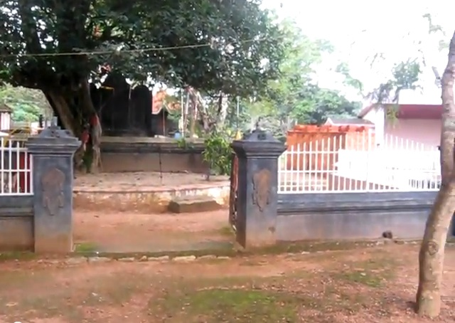 Temple dedicated to Shakuni in Kollam Kerala.